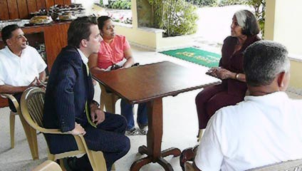 Dede Mirabal conversing with journalists at the Mirabal Museum.